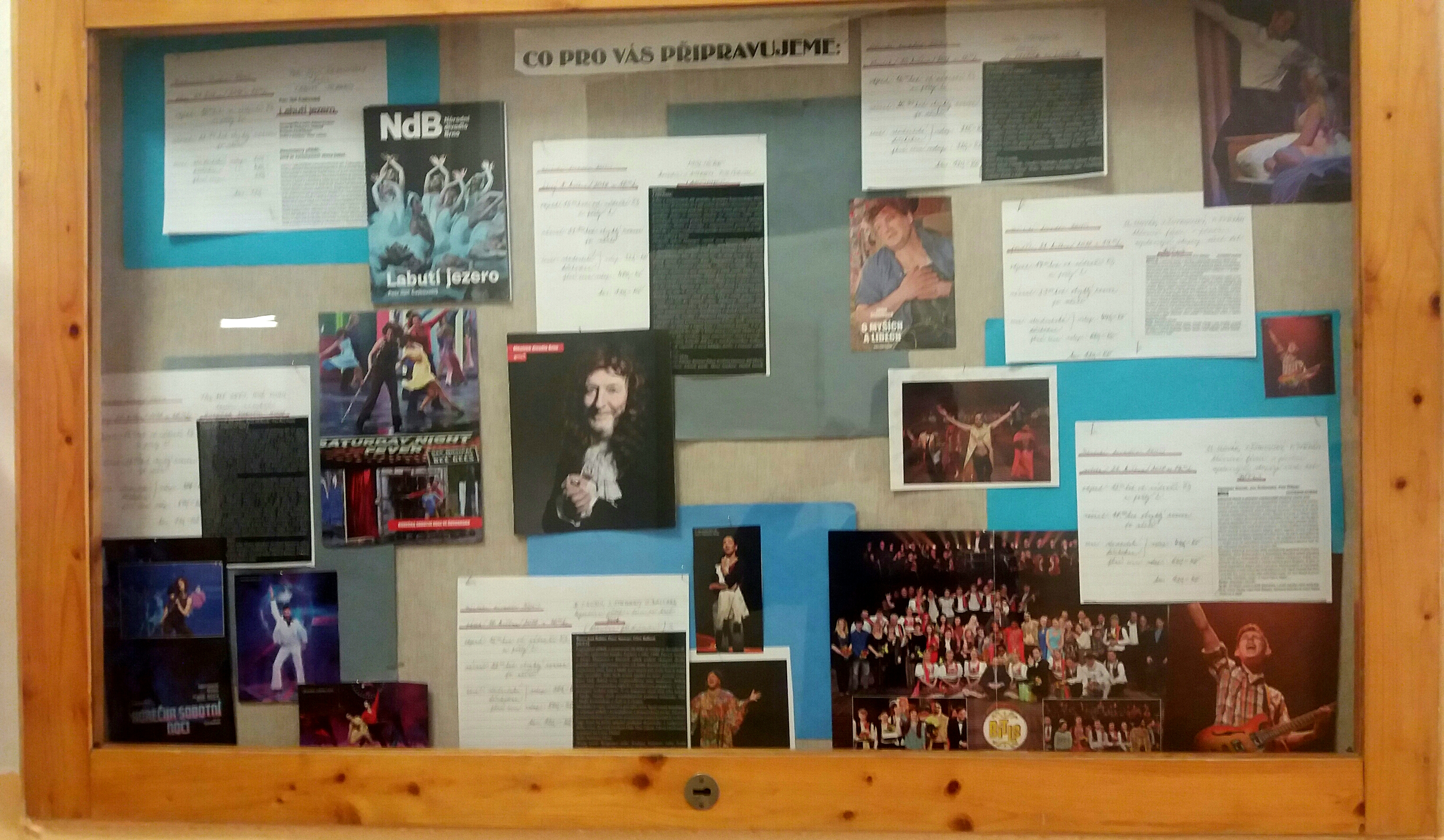 A school in the Czech Republic